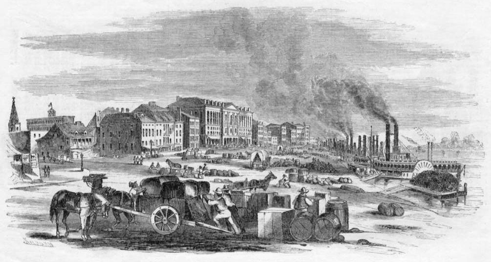 The Levee or Landing, St. Louis, Missouri, 1857